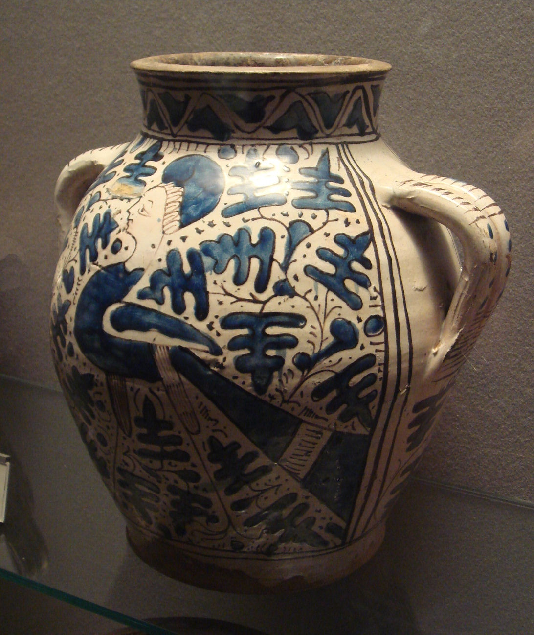 Blue-White Vase Florence, 1430